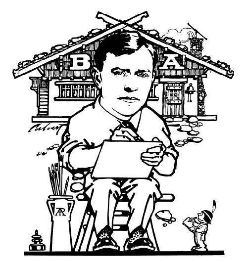 Illustration of Alfred T. Renfro by Frank Calvert.